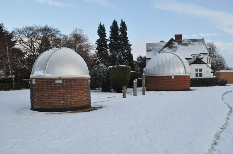 Oadby Observatory, near to Oadby, Leicestershire, Great Britain. This is the University of Leicester facility next to the sports club. The larger dome was opened in 1980 but refurbished with a brand new 20-inch piCETL Telescope Link . Being opened by Professor Jeff Hoffman, a former NASA astronaut on the 7th December 2009. There is also a smaller dome with a smaller telescope. The observatory is used by the physics and astronomy department with undergraduate projects as well and research by professionals. The astro society (of which I am a member) has the Tuesday fortnightly spot from 8-12pm. On the less cloudy nights Jupiter (plus all 4 moons), Neptune, Uranus, Andromeda, Vega and several other sights have been viewed. Throughout the year more planets should appear like Venus, Mars and Saturn although I have already seen Mars and its methane icecaps at Seething TM3295 : Seething Observatory .